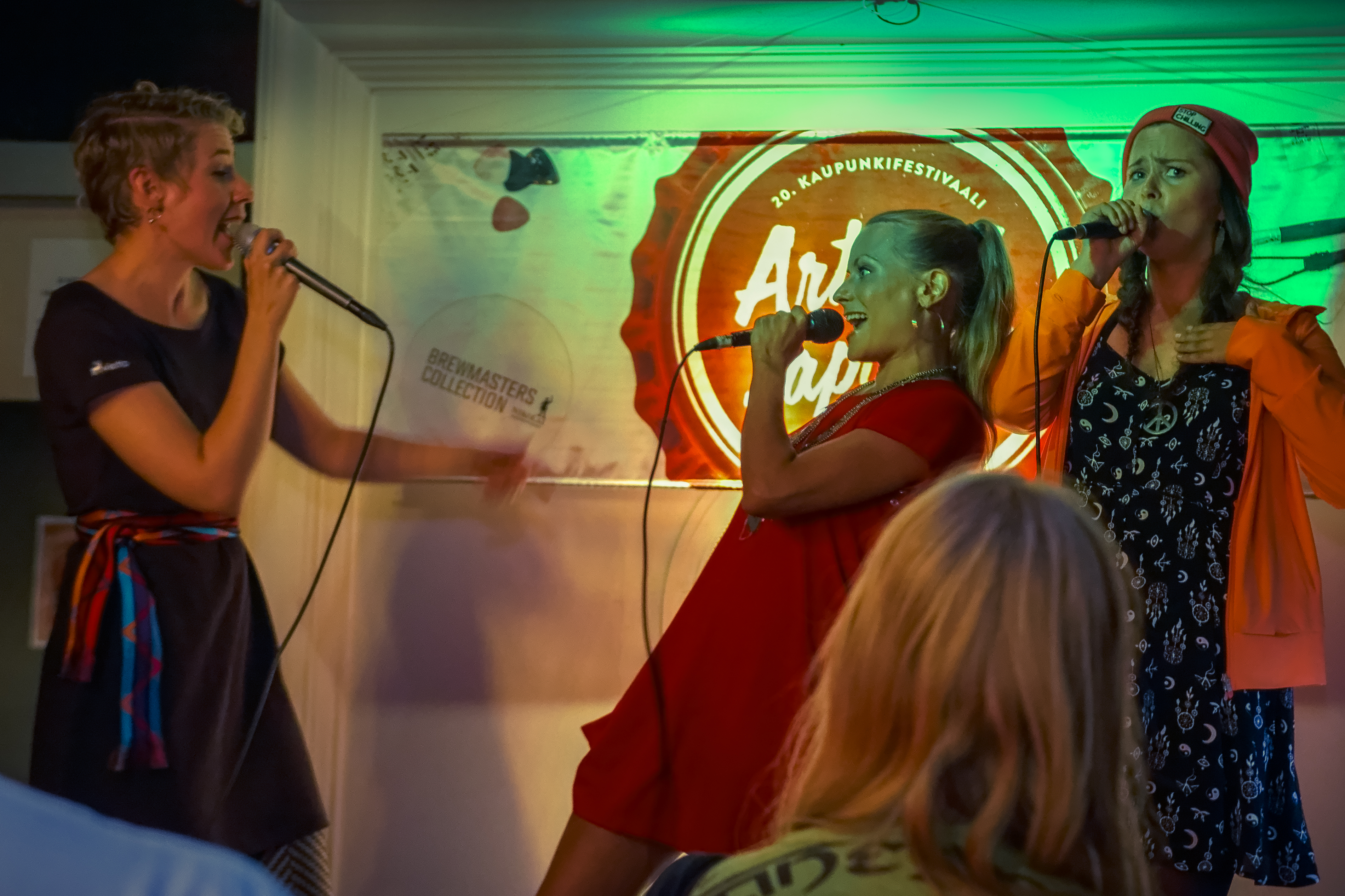 Pyhä Rauha at Art goes Kapakka 2014. Picture Heini Lehväslaiho.